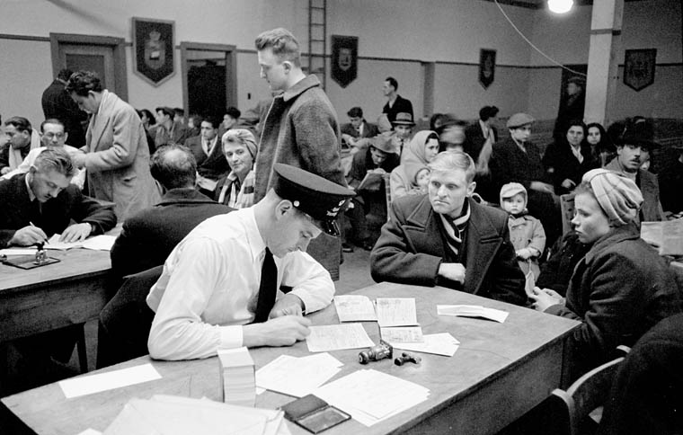 Examining new arrivals in the Immigration Examination Hall, Pier 21, Halifax, Nova Scotia, Canada.